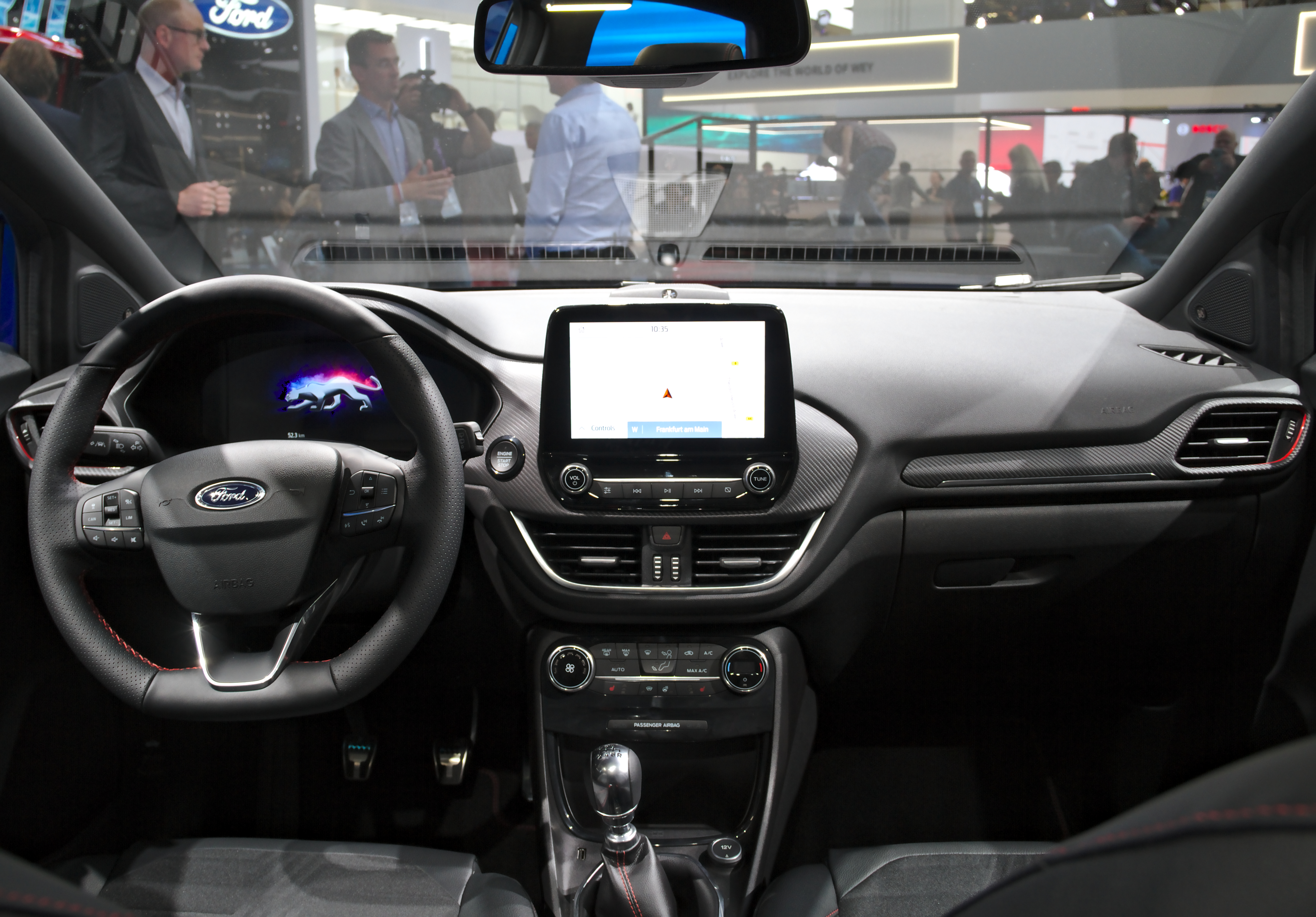 Ford_Puma_(2019) at IAA 2019